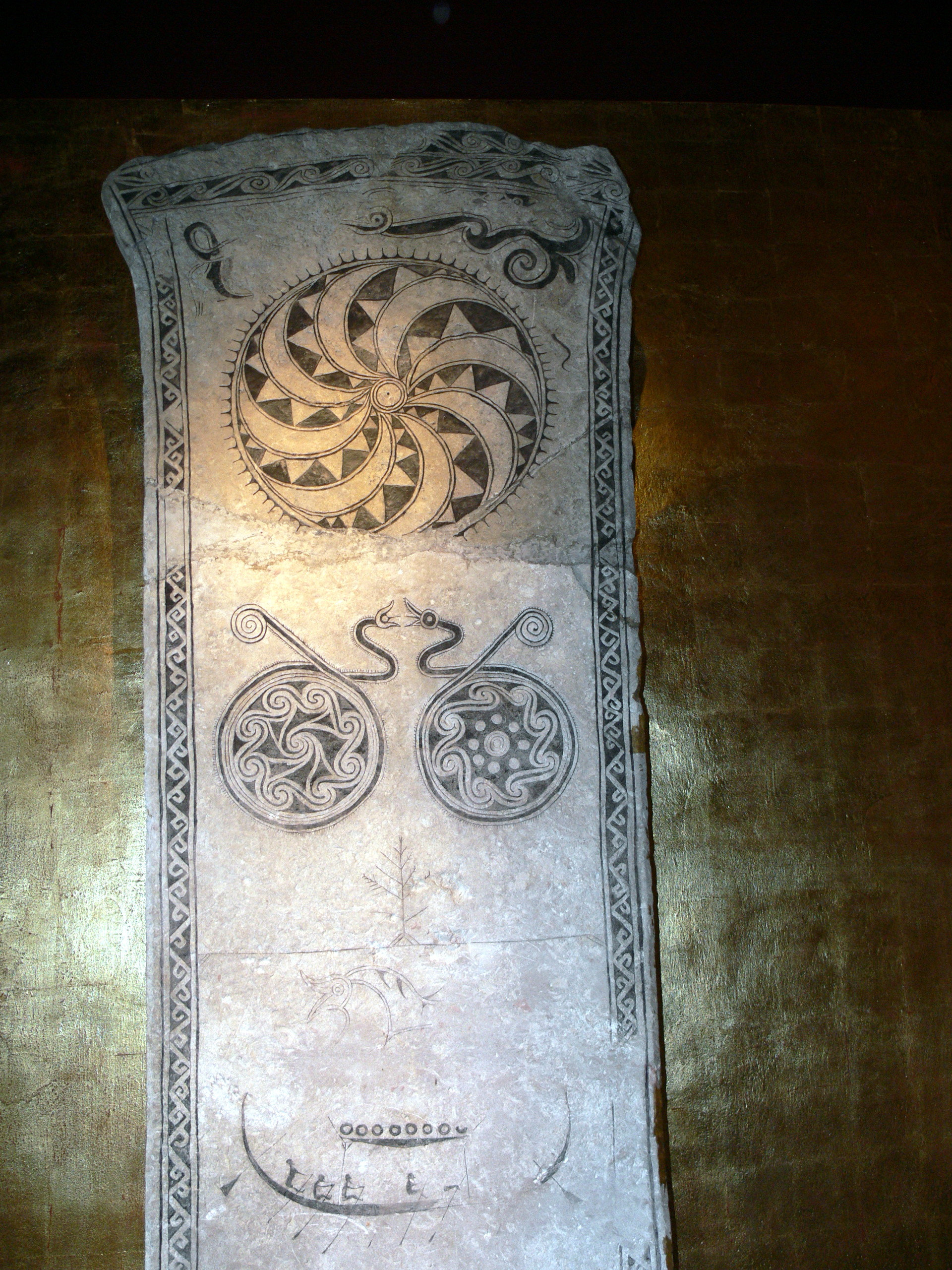 Fornsalen Museum, Visby ( Gotland ). Picture stone showing a spiral, ornaments and a ship.